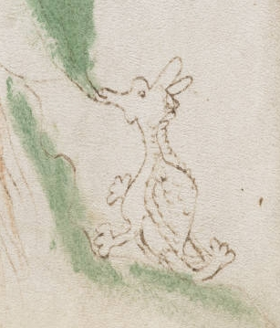 Detail of Voynich Manuscript, page 50; f25v, called ((dragon)) as the detail resembles a "dragon"